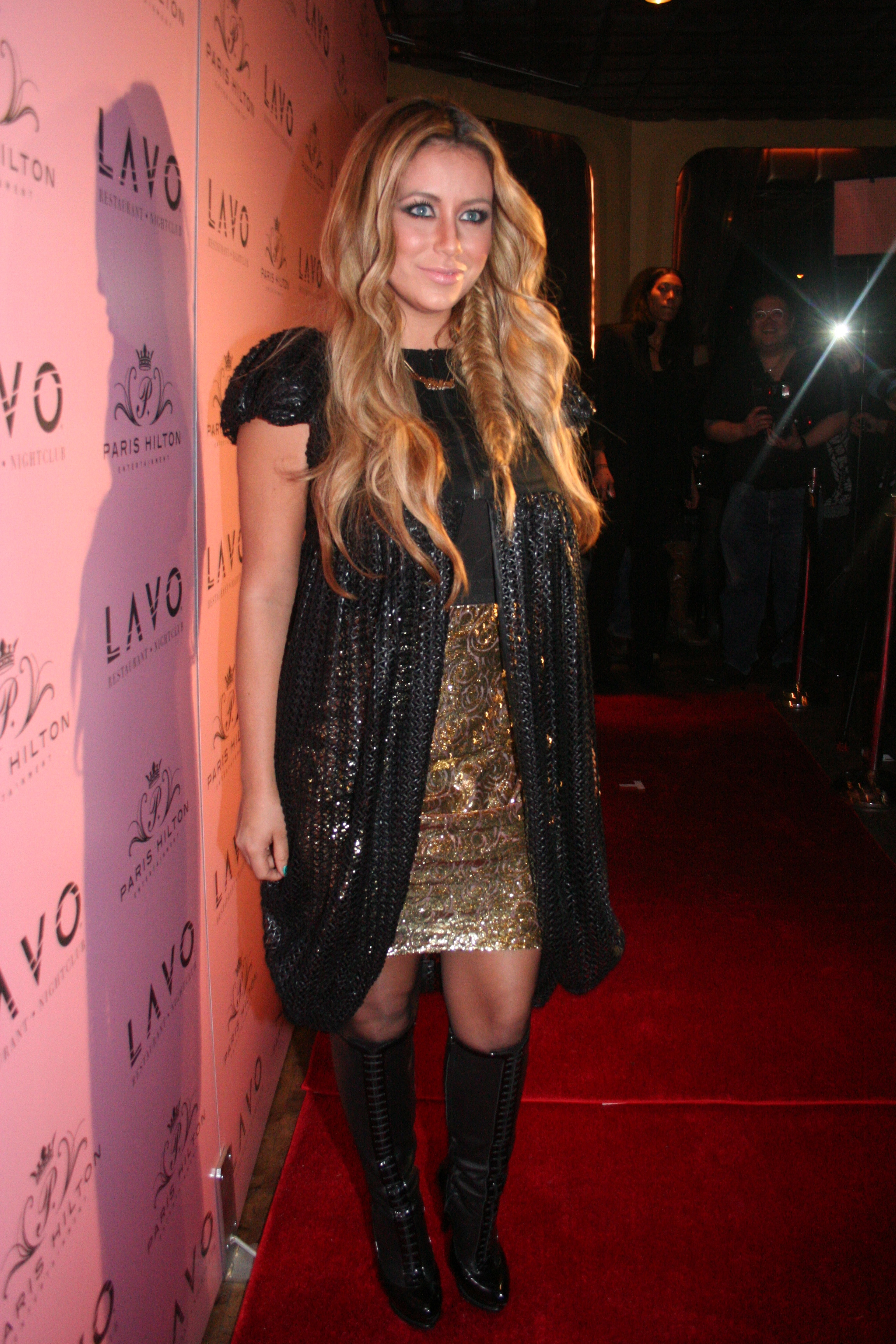 Paris Hilton’s 30th Birthday Lavo February 18th 2011